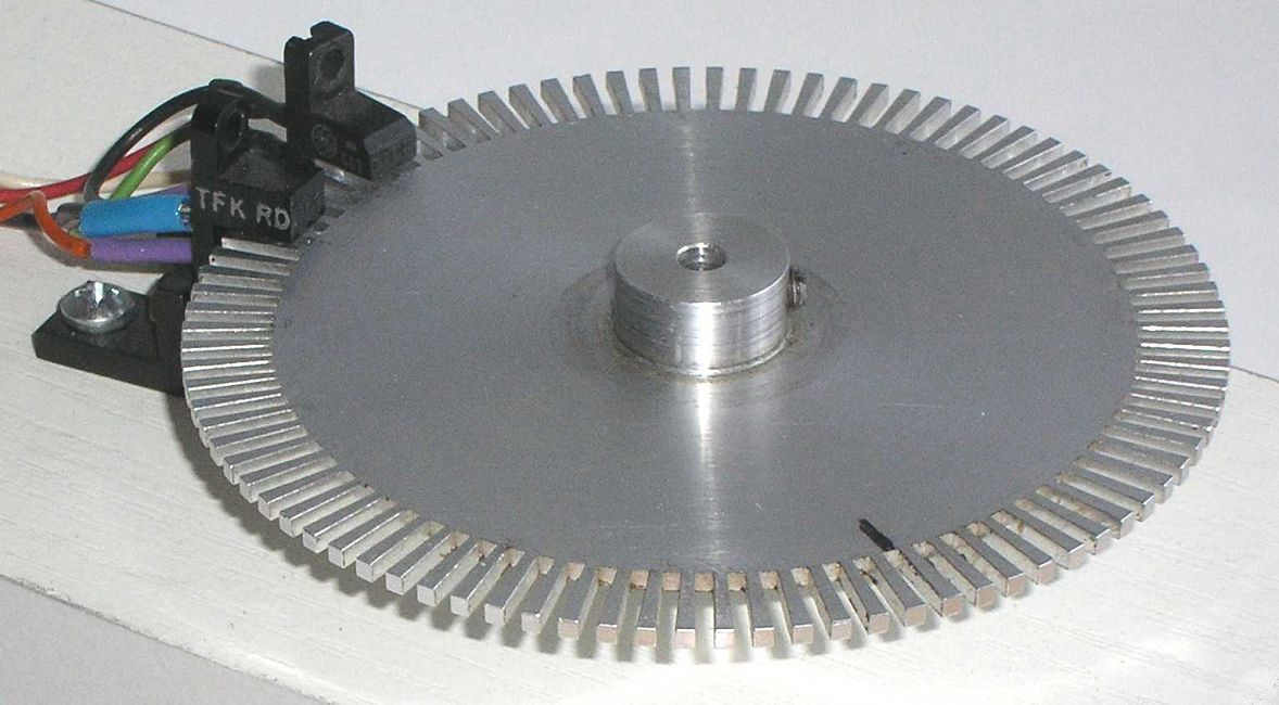 Rotary optical encoder model